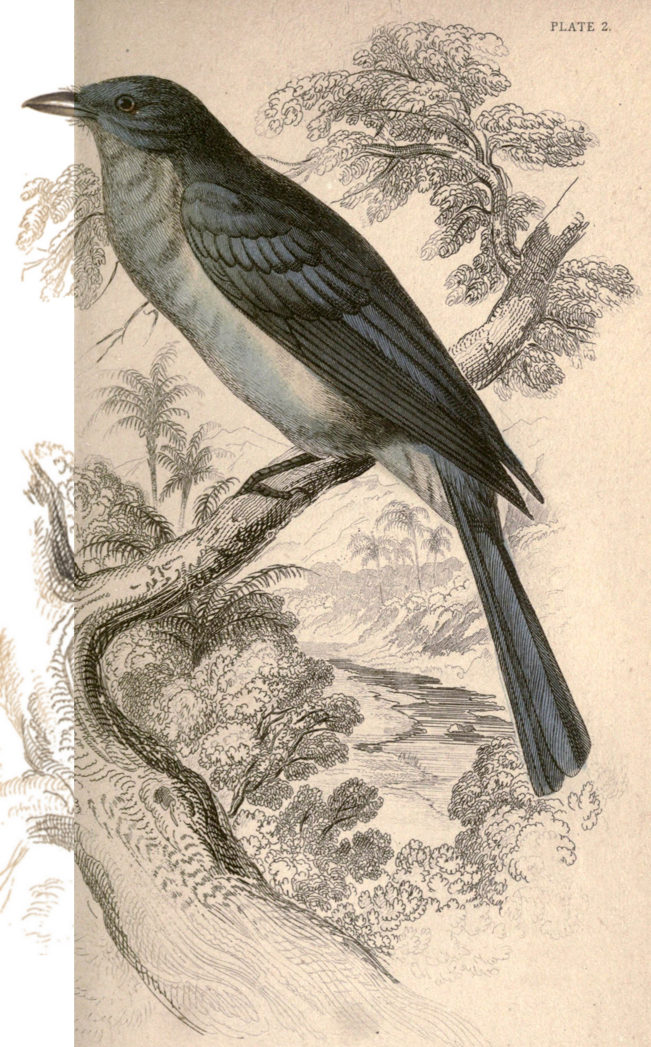 « Lathria cinerea » = Lipaugus vociferans (Screaming Piha)